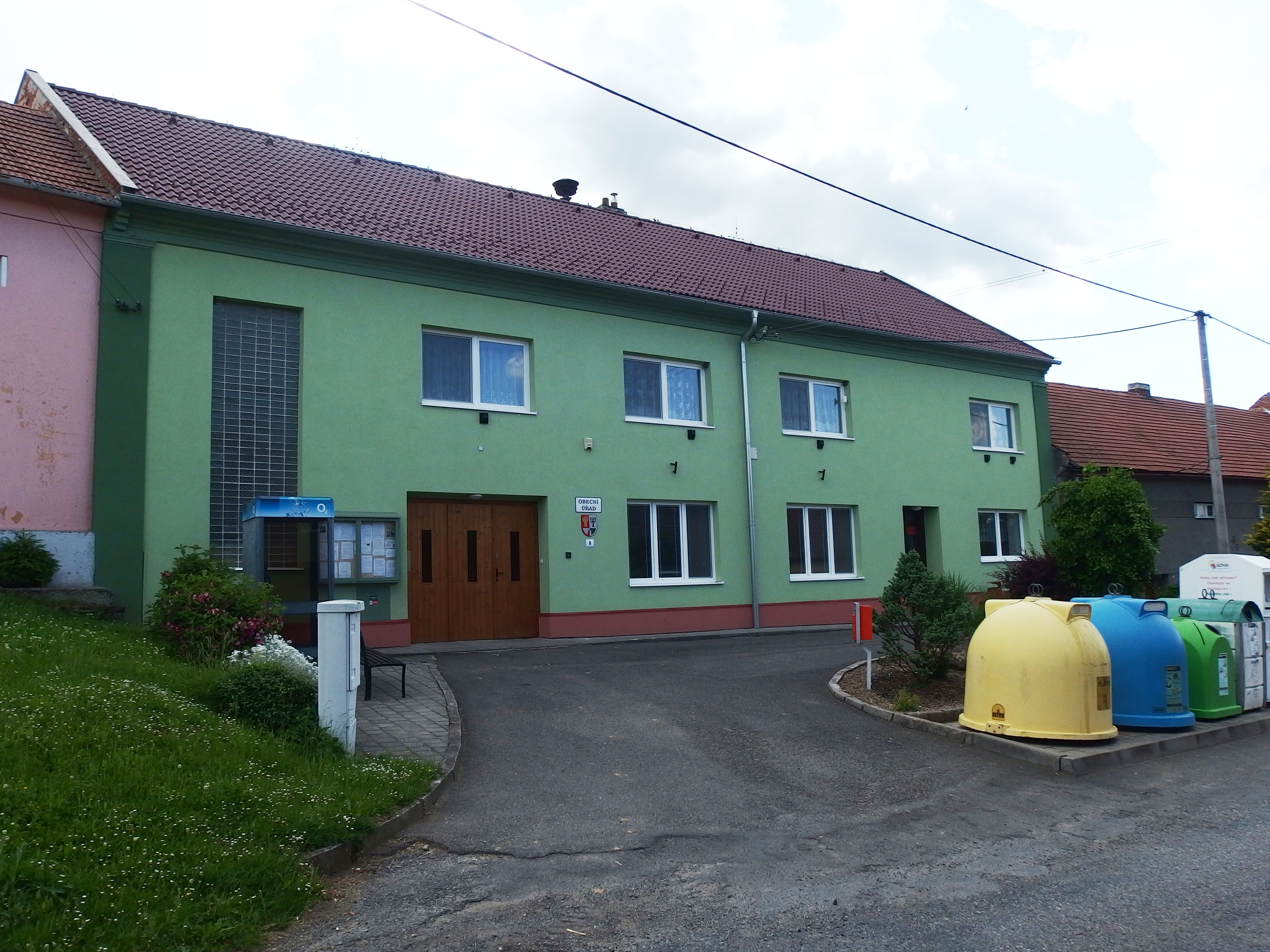 Bařice-Velké Těšany in Kroměříž District, Czech Republic, part Bařice.